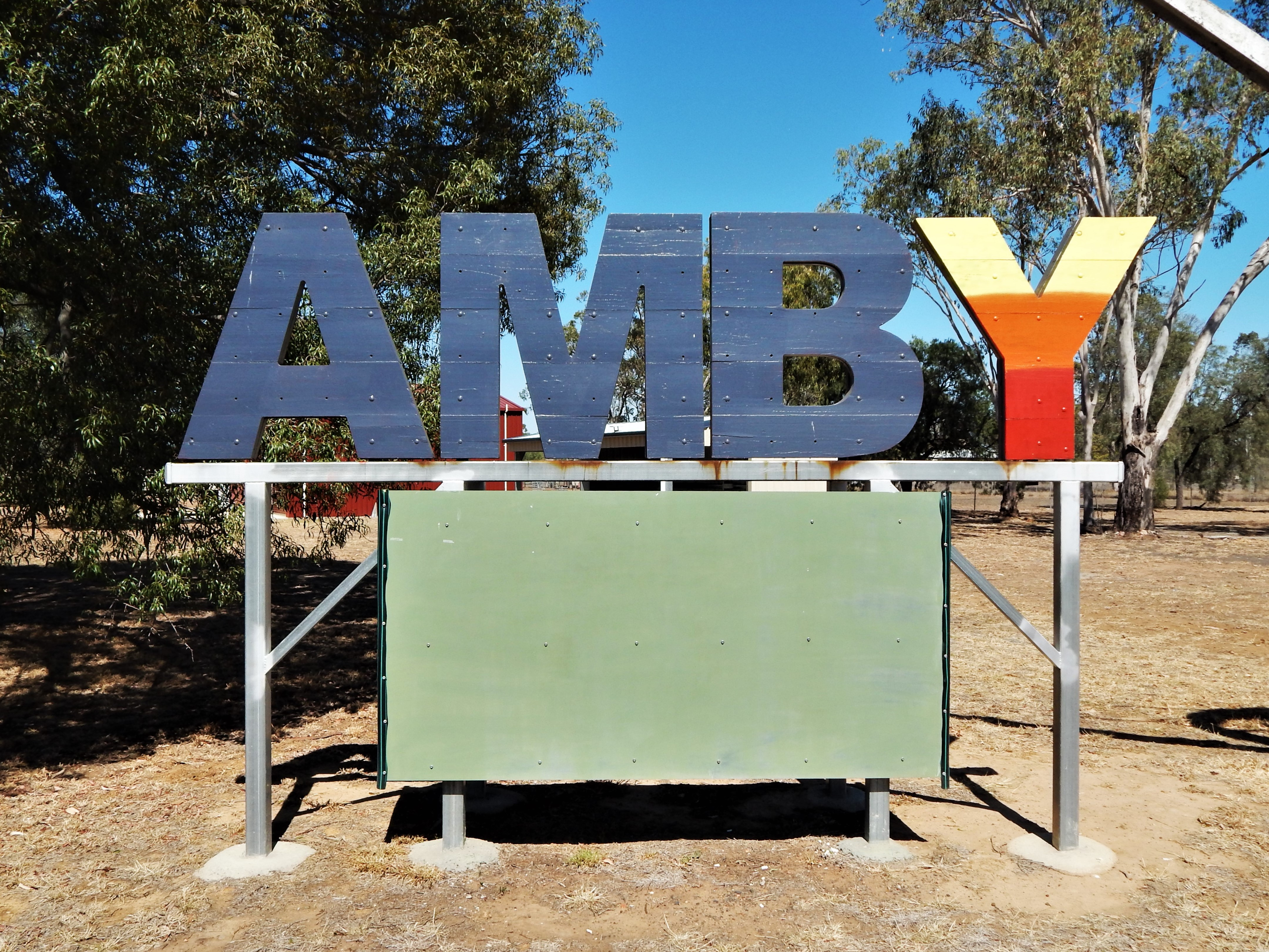 The Amby sign, located at the eastern entrance to the town of Amby, Queensland